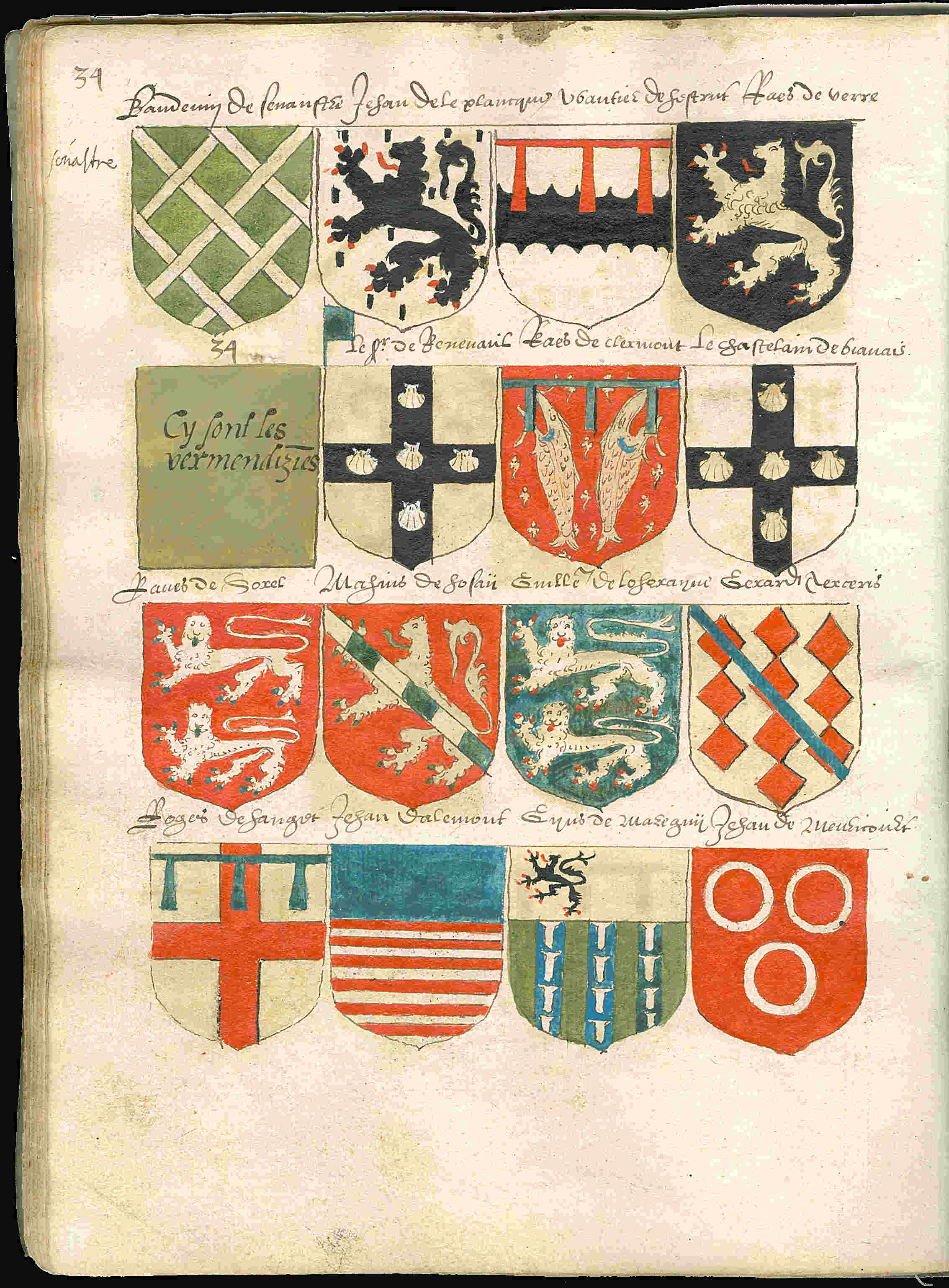 Page 34 from a copy of the Beyeren armorial / Wapenboek Beyeren from ca. 1600. The original Beyeren armorial from 1405 can be viewed at the website of the KB